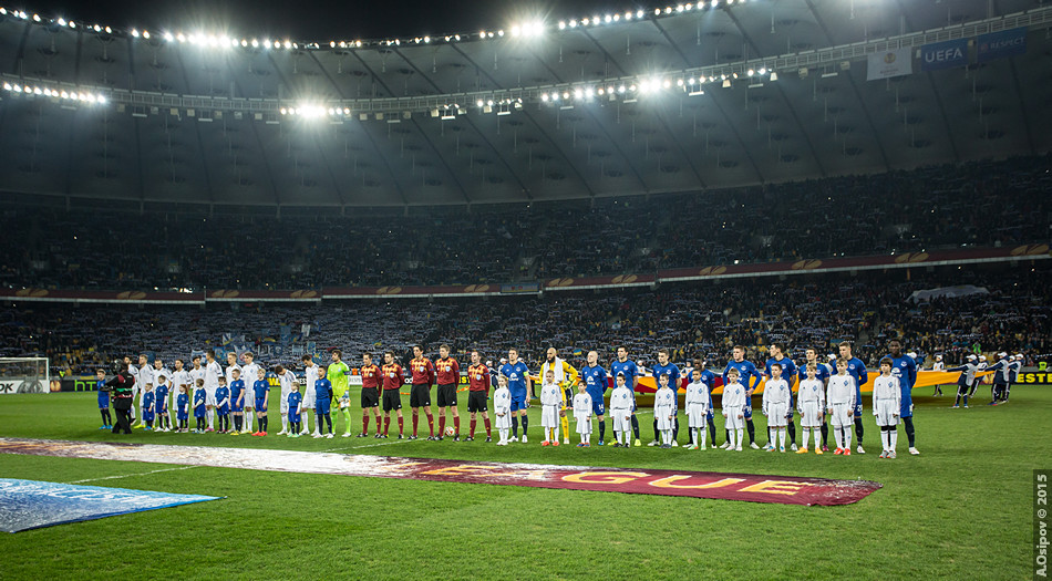 UEFA Europa League 2014-15 1/8 Final NSK Olimpiyskyi - Kyiv 19/03/2015 - 19:00CET (20:00 local time) Round of 16, Second leg Dynamo Kyiv - Everton - 5:2 Goals: Yarmolenko 21 Lukaku 29 Teodorczyk 35 Miguel Veloso 37 Gusev 56 Antunes 76 Jagielka 82 Aggregate: 6-4